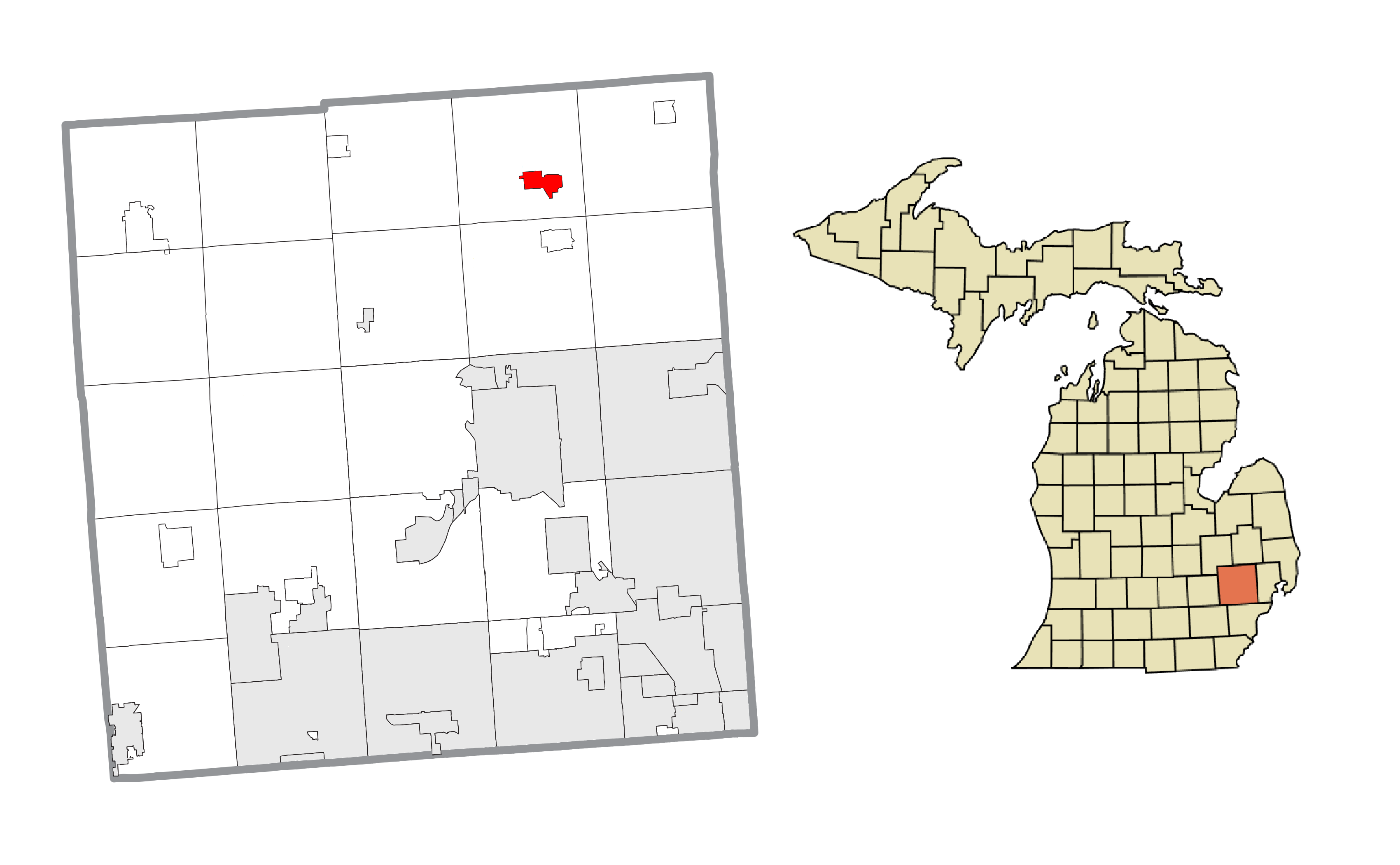 Oxford, MI